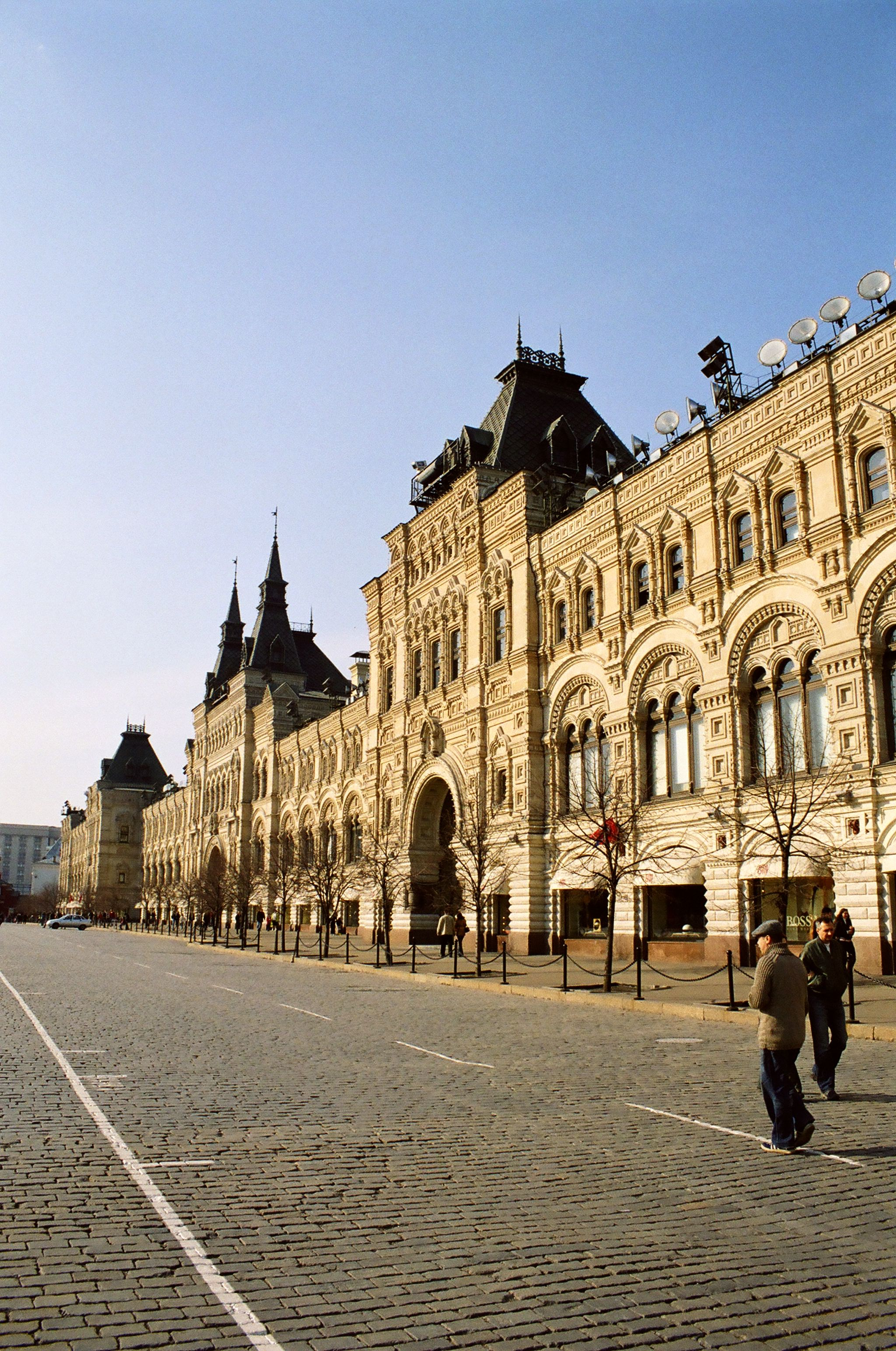 GUM Department Store, Moscow